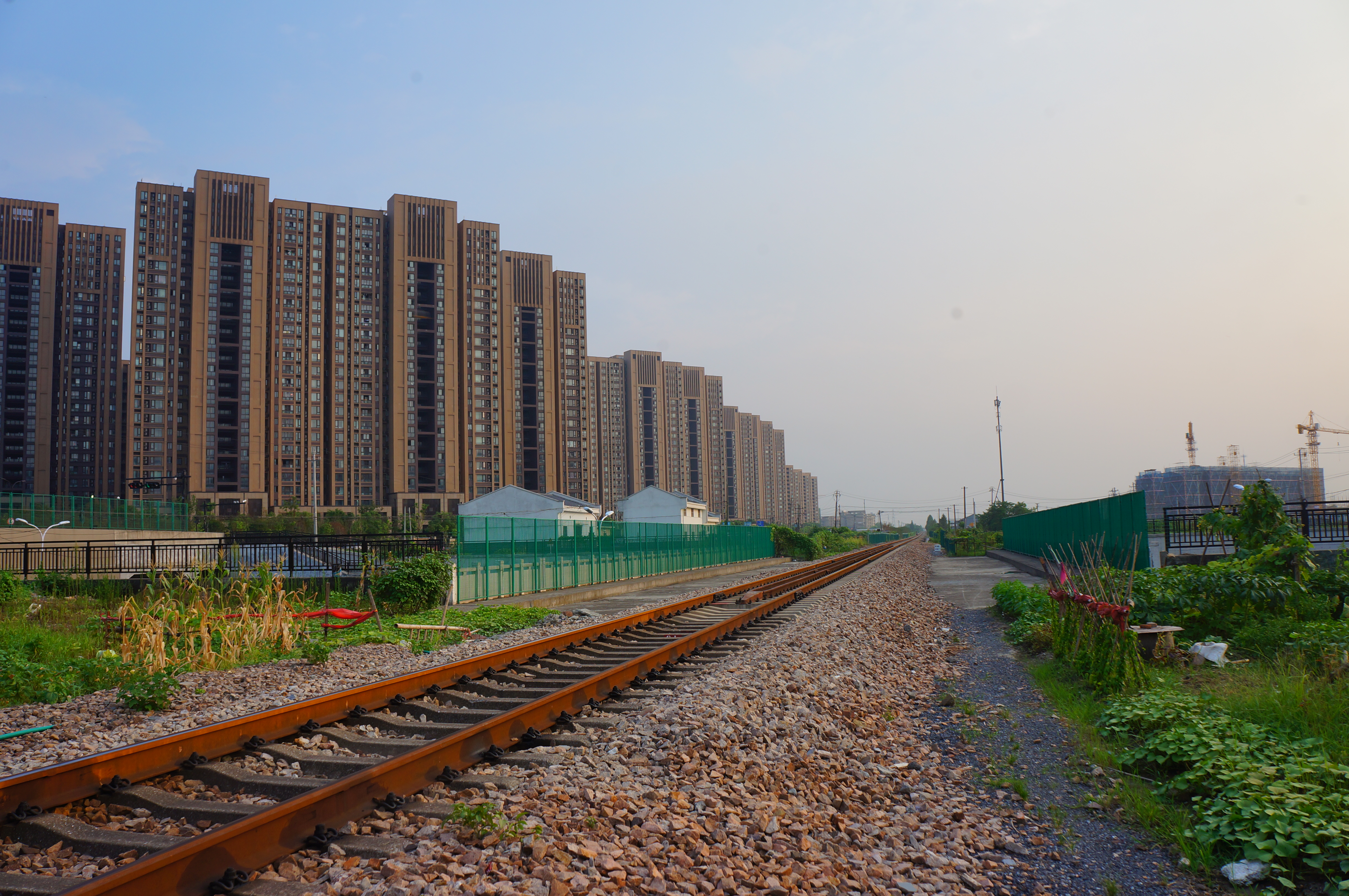 201608 Deqing–Hangzhou Railway in Sandun